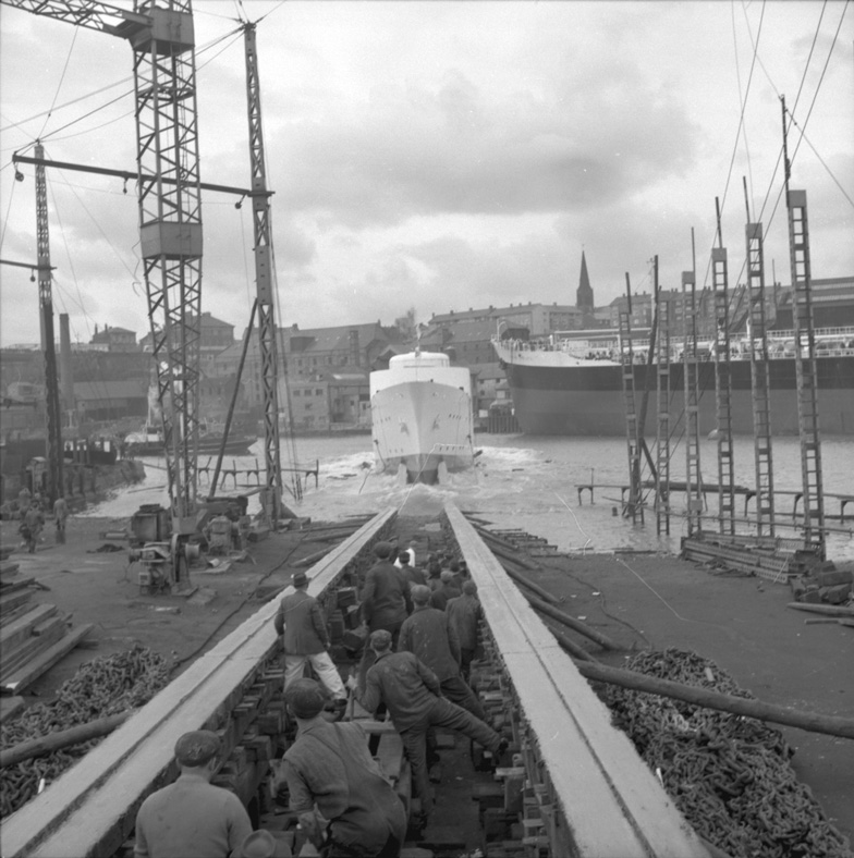 Workers look on as the yacht Radiant II slides down the slipway into the River Wear at the Wear Dockyard of Austin & Pickersgill Ltd, 29 March 1961 (TWAM ref. DT.TUR/2/26431K) For an image of her ready for launch . An image of her captured from Wearmouth Bridge is available here . Tyne & Wear Archives is proud to present a selection of images from its Sunderland shipbuilding collections. The set has been produced to celebrate Sunderland History Fair on 7 June 2014. It's a reminder of the thousands of vessels launched on the River Wear and the many outstanding achievements of Sunderland’s shipyards and their workers. These photographs reflect Sunderland’s history of innovation in shipbuilding and marine engineering from the development of turret ships in the 1890s through to the design for SD14s in the 1960s. The Sunderland shipbuilding collections are full of fascinating stories. Some of these are represented in this set, such as the ‘Rondefjell’, launched in two halves on the River Wear by John Crown & Sons Ltd and then joined together on the River Tyne. The set also shows the vital part that Sunderland’s shipbuilding industry played during the First World War. William Doxford & Sons Ltd built Royal Naval destroyers such as HMS Opal, which served in the Battle of Jutland, while other yards constructed cargo ships to help keep these shores supplied. (Copyright) We're happy for you to share these digital images within the spirit of The Commons. Please cite 'Tyne & Wear Archives & Museums' when reusing. Certain restrictions on high quality reproductions and commercial use of the original physical version apply though; if you're unsure please